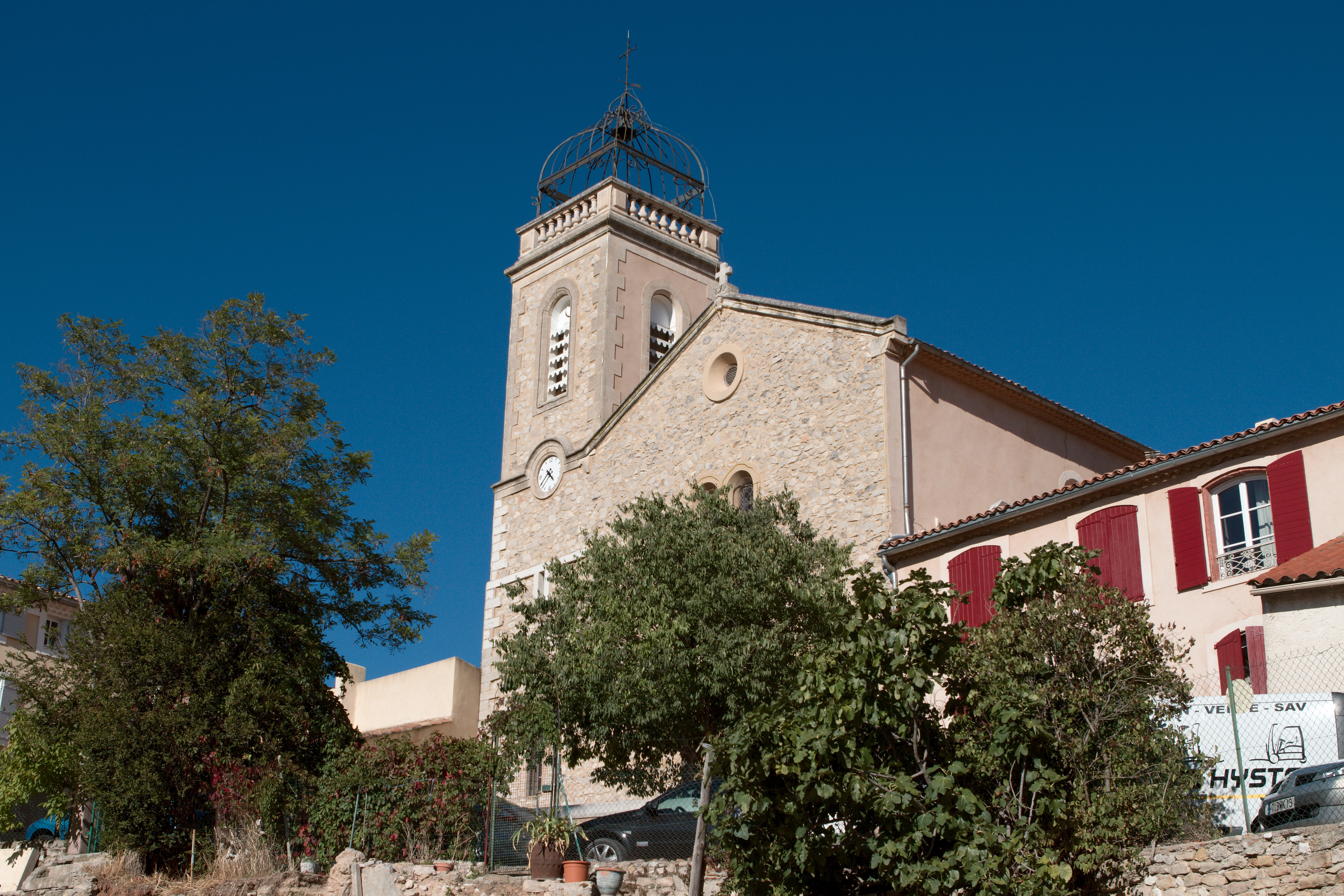 The church Saint-Pons in Puyloubier, Bouches-du-Rhône (France).